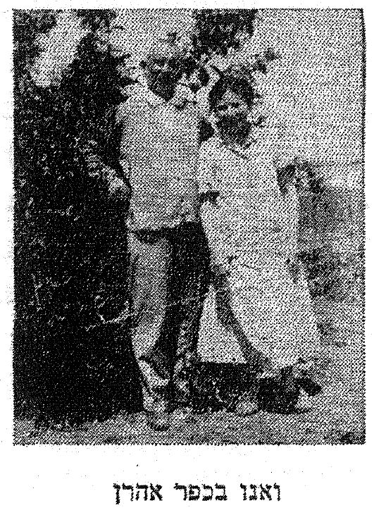 Rabbi Mordechai Niemann and his family